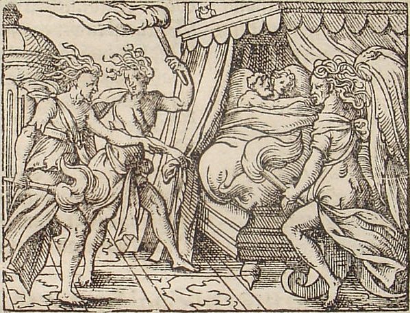 Tereus and Procne, surrounded by Furies. Engraving by Virgil Solis (1581) for Ovid's Metamorphoses Book VI, 412-432. Fol. 78r, image 4.